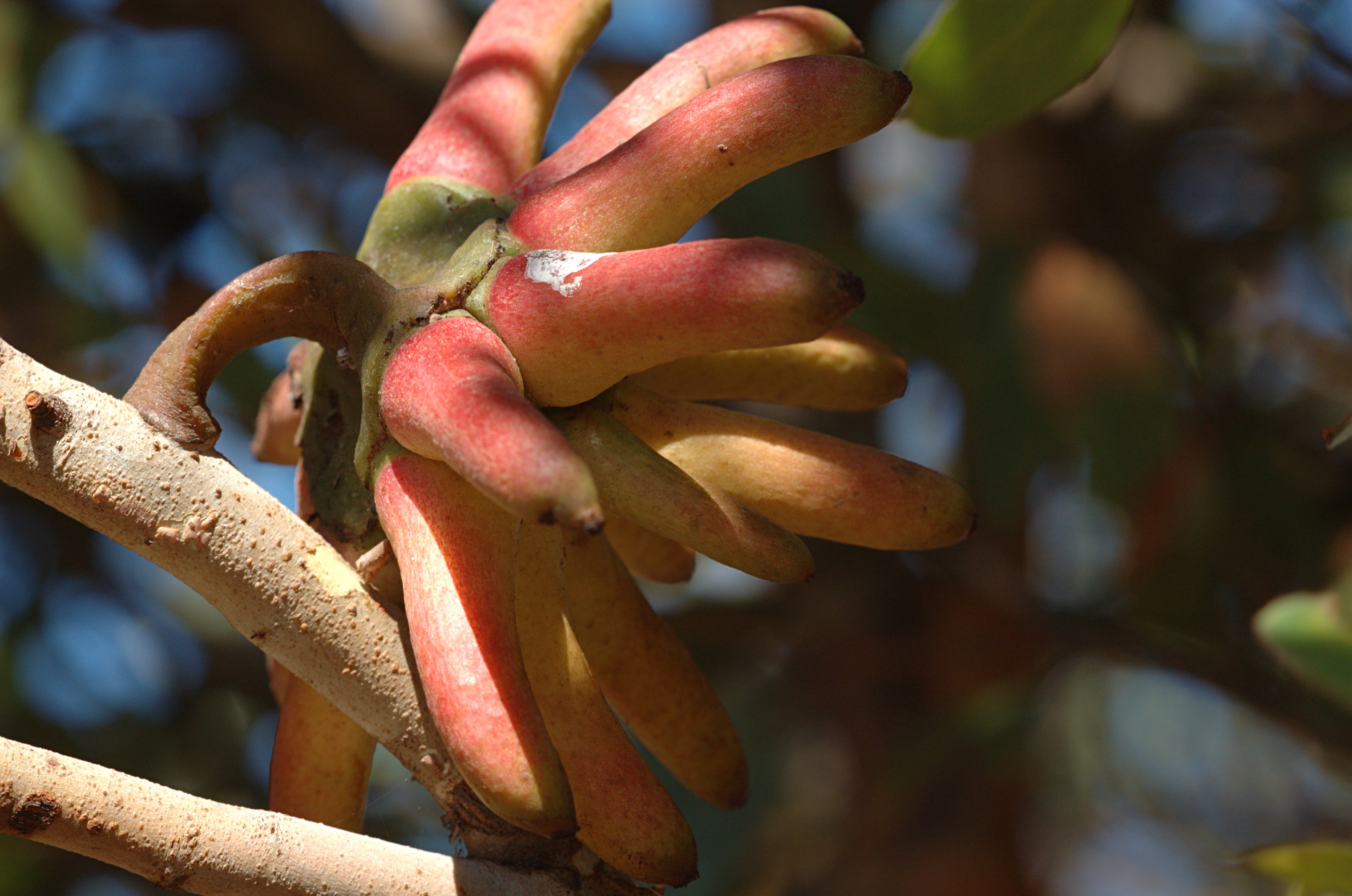 Probably Bald Island Marlock (Eucalyptus conferruminata), opercula or flower bud covers. East Devonport, Devonport, Tasmania, Australia.